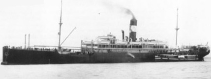 Blue Anchor liner Waratah: built in Glasgow in 1908 and lost off the coast of Natal in July 1909